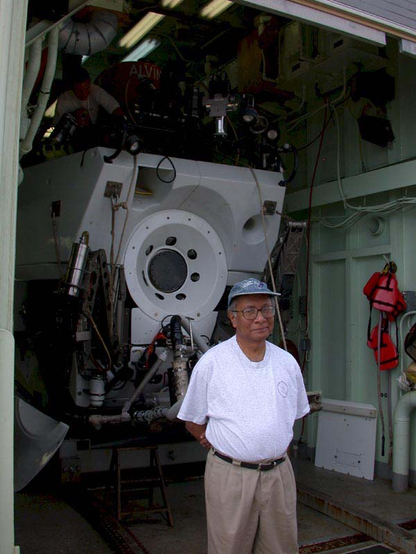 Dr. Barun Sen Gupta, Henry V. Howe Professor of Geology at Louisiana State University, standing near the Alvin on board the Atlantis.